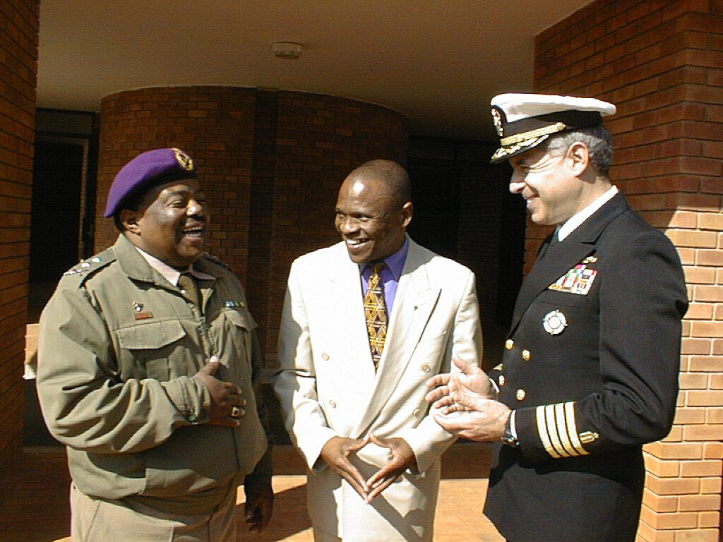 Milawi, 1998, with Chiefs of Chaplains of S. Africa and Swaziland U.S. Navy Chaplain, Rabbi Arnold E. Resnicoff (Command Chaplain, United States European Command), with Chiefs of Chaplains from S. Africa (MajGen Fiume Gqiba) and Swaziland (Sabelo Maseko).